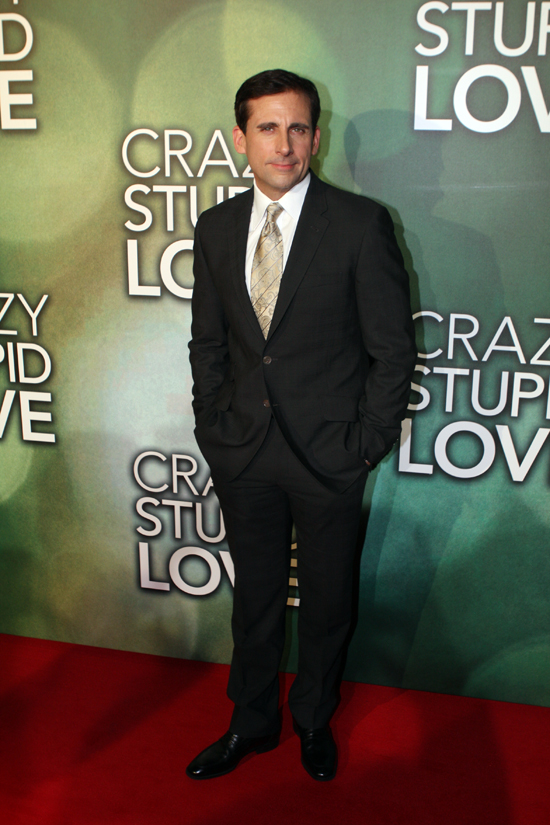 Steve Carell at the Australian premiere for Crazy, Stupid, Love